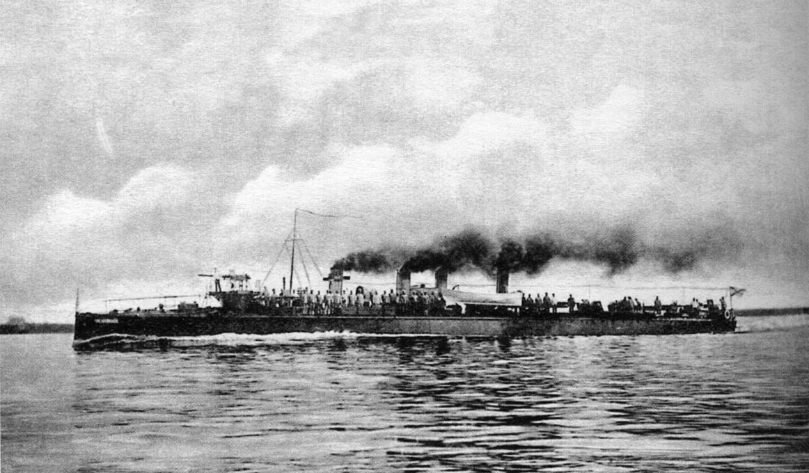 Imperial Russian torpedo boat destroyer Prozorlivyi